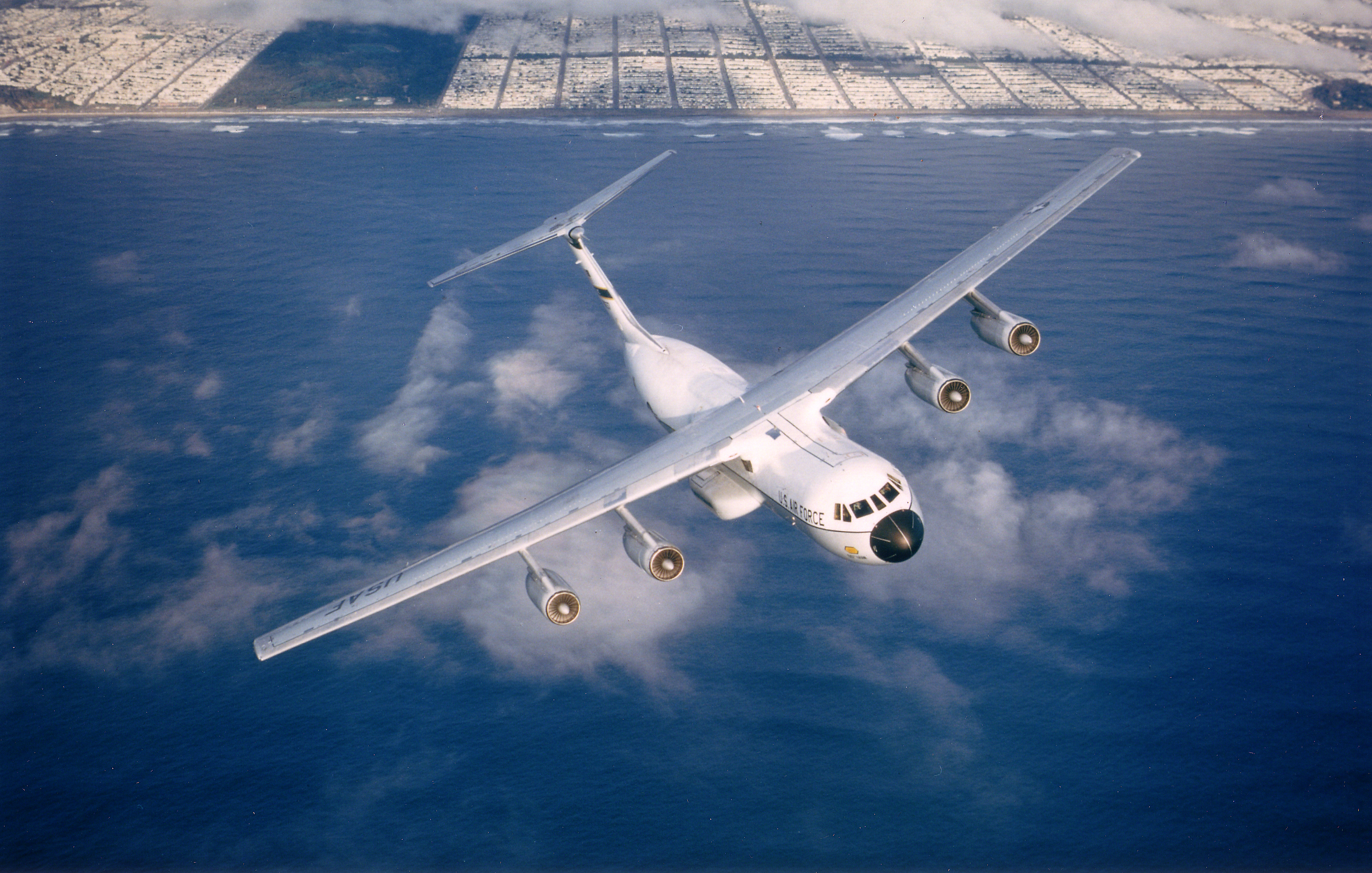 A U.S. Air Force Lockheed C-141A Starlifter assigned to the 710th Military Airlift Squadron (AFRES), 60th Military Airlift Wing, in flight over the Pacific Ocean en route to Travis Air force Base, California (USA), in March 1978. In the background are Ocean Beach, Golden Gate Park, and the Outer Richmond and Outer Sunset neighborhoods of San Francisco.